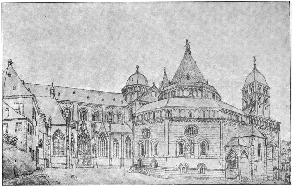 Worms, Johanneskirche mit Dom